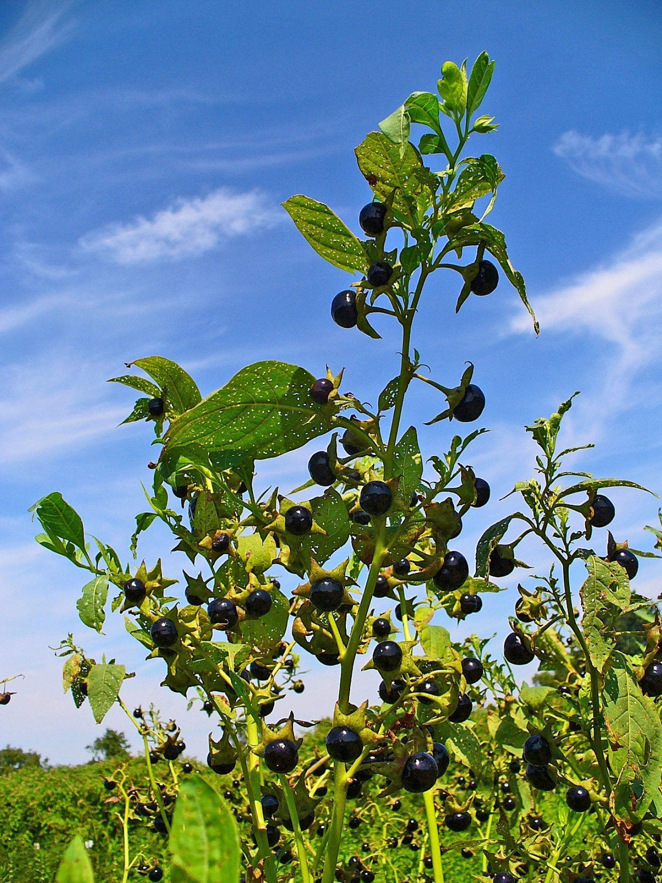 Atropa belladonna, Solanaceae, Deadly Nightshade, fruits; Botanical Garden KIT, Karlsruhe, Germany. The fresh plants are used in homeopathy as remedy: Belladonna (Bell.)